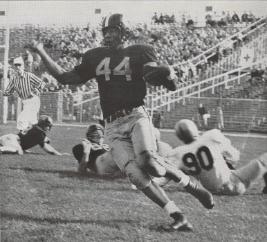 Photograph of Purdue football player Erich Barnes